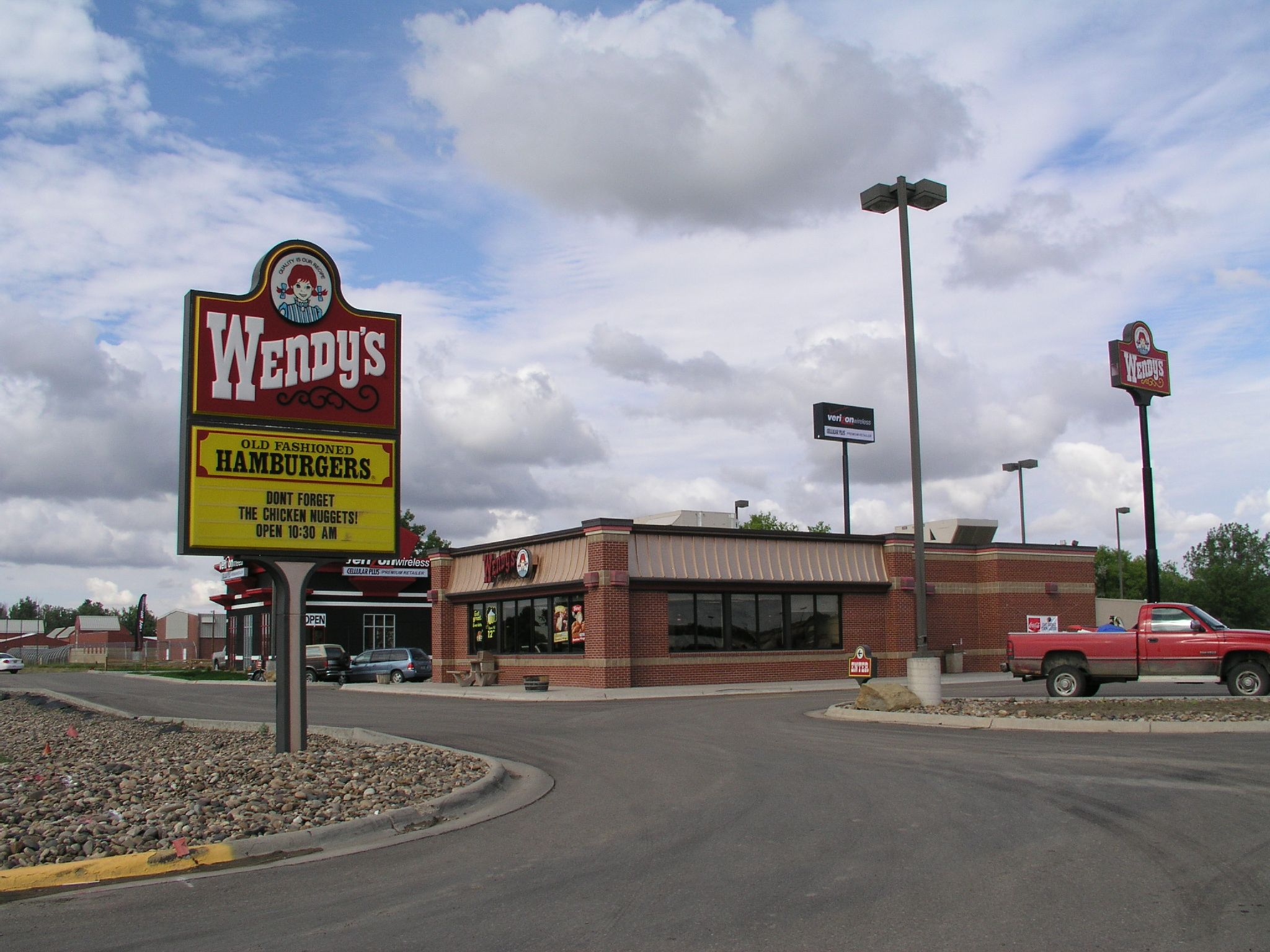 A Wendy's Restaurant in Miles City, Montana, USA.